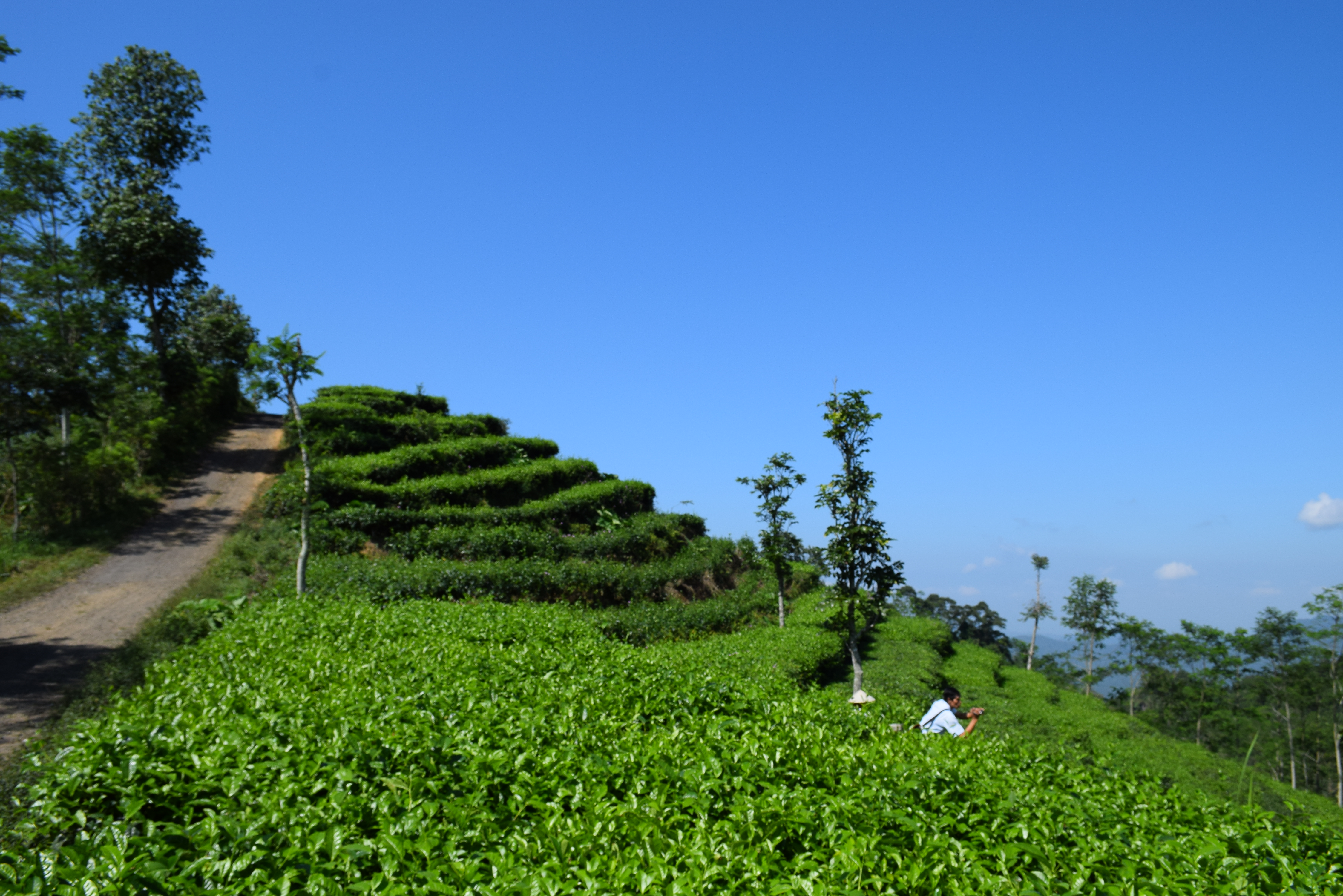 Nglinggo Tea Plantation near Borobudur